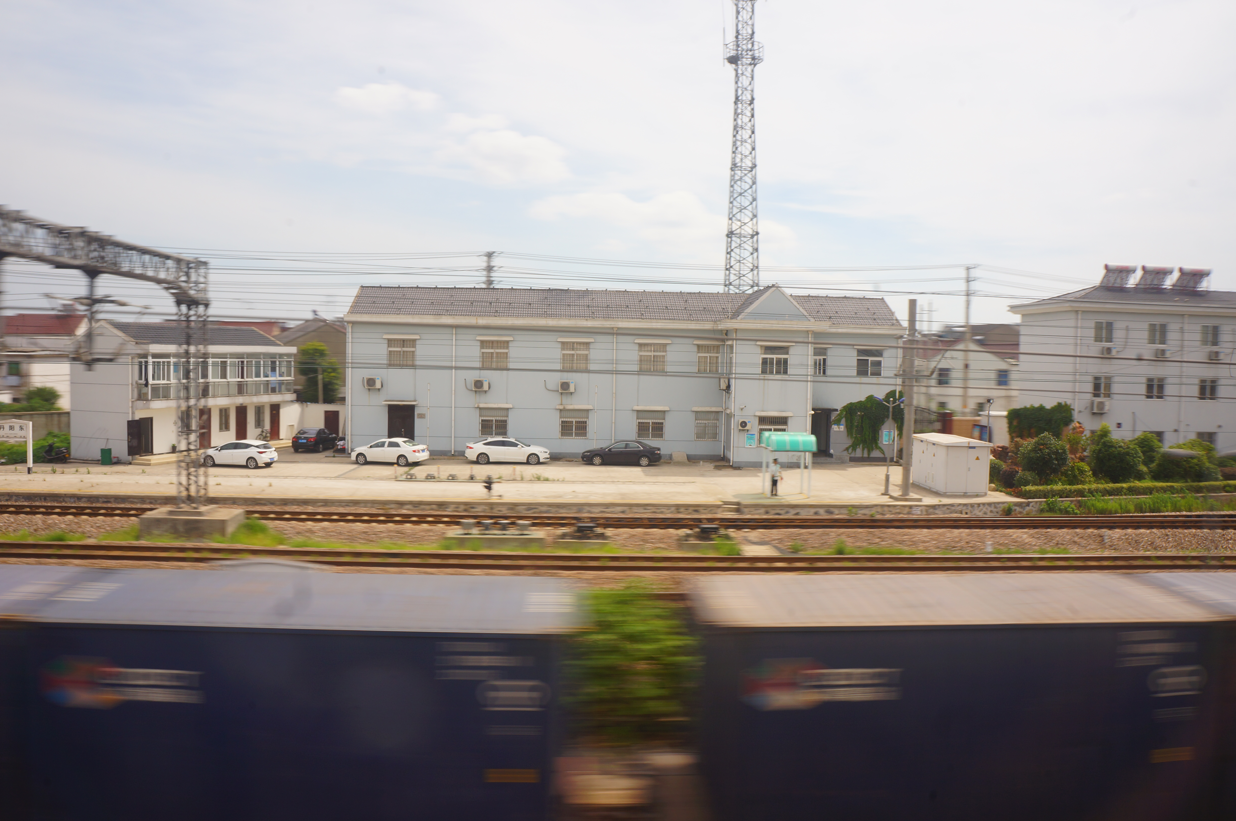 201806 Station Building of Danyangdong Station